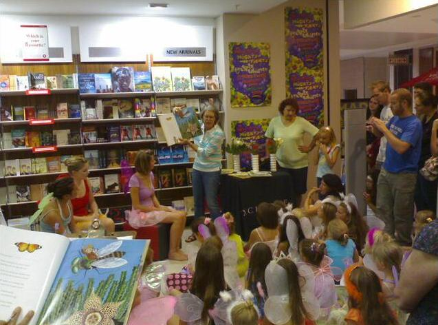 A photo taken of Antjie Krog at a book reading in Bloemfontein.